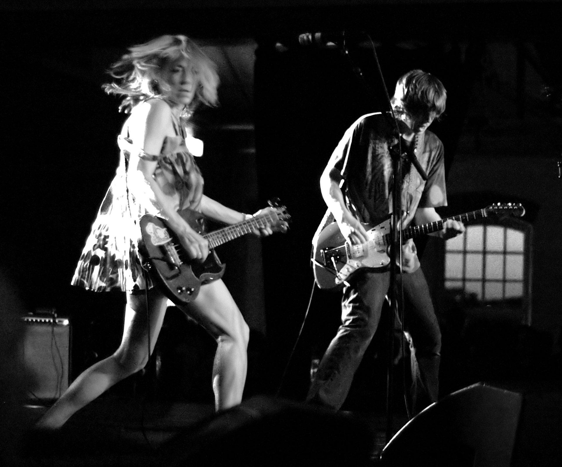 Kim Gordon and Thurston Moore of Sonic Youth live at Accelerator, Münchenbryggeriet, Stockholm, Sweden, 2005-07-07.